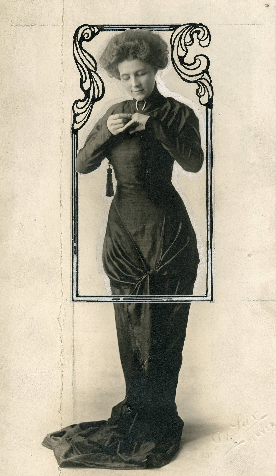 Stage actress Nana Bryant. Subjects: actresses